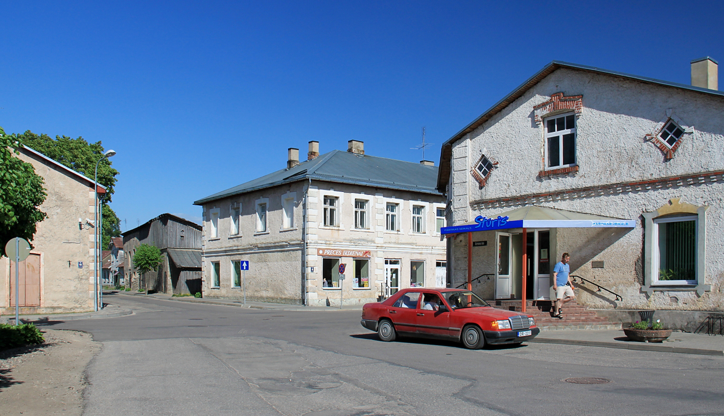 Ape, Latvia